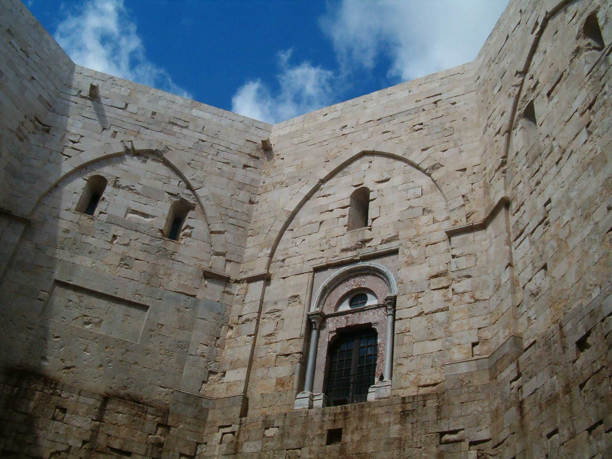 View of the inner courtyard of Castel del Monte (Puglia, Italy), about 1240.